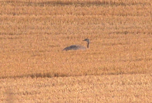 free Nandu in Germany